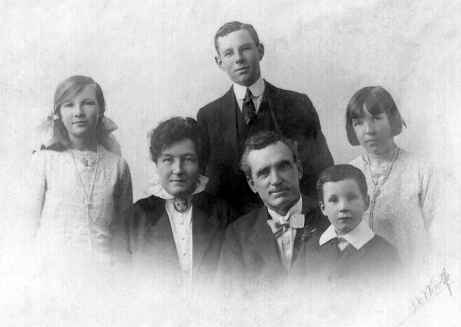 Mark Foy (1865-1950) and his family 1915